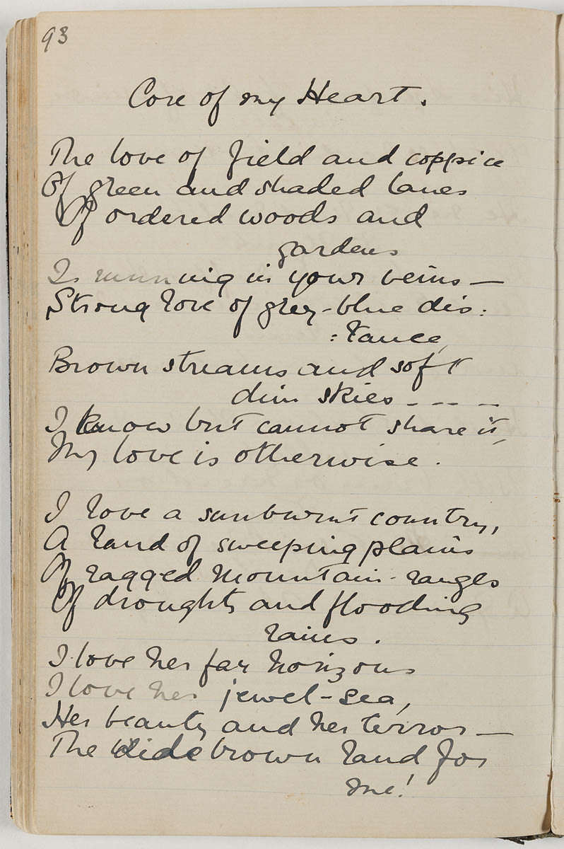 Page 1 of My Country (Core of my Heart) by Dorothea Mackellar